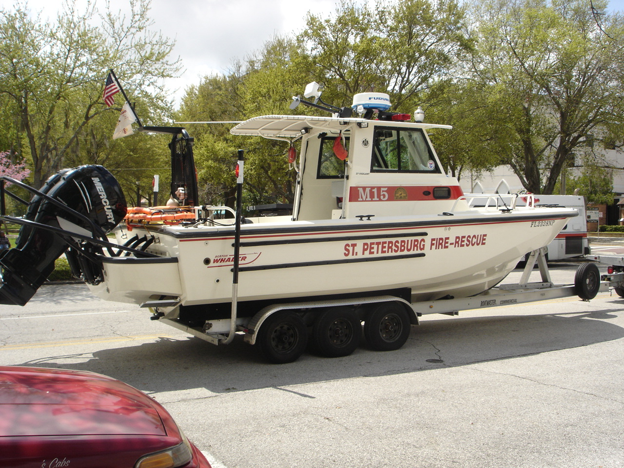 St. Petersburg Fire-Rescue, boat on trailer, Florida, USA